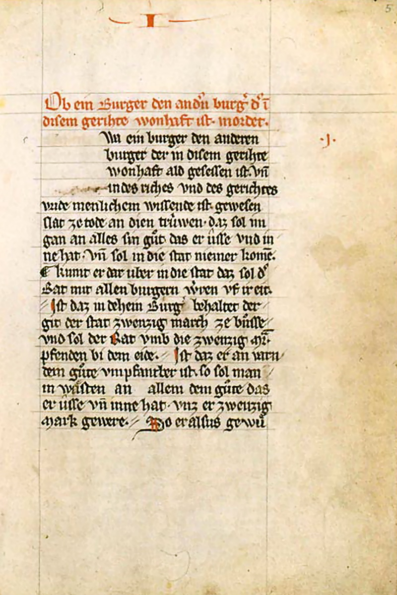 Zürich : 'Richtebrief' (1304)